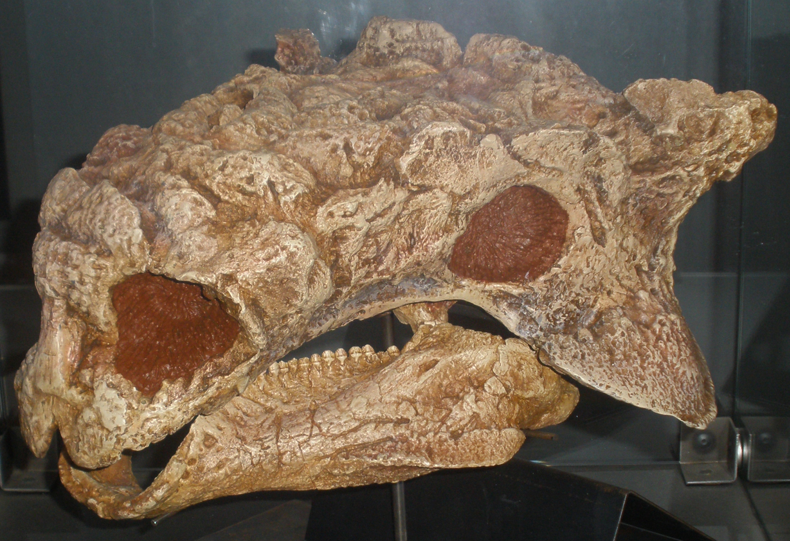 Cast of a fossil skull, specimen PIN 3142/250, initially referred to Tarchia kielanae, in 2014 referred to Saichania. Both are extinct ankylosaurid dinosaurs from Mongolia.